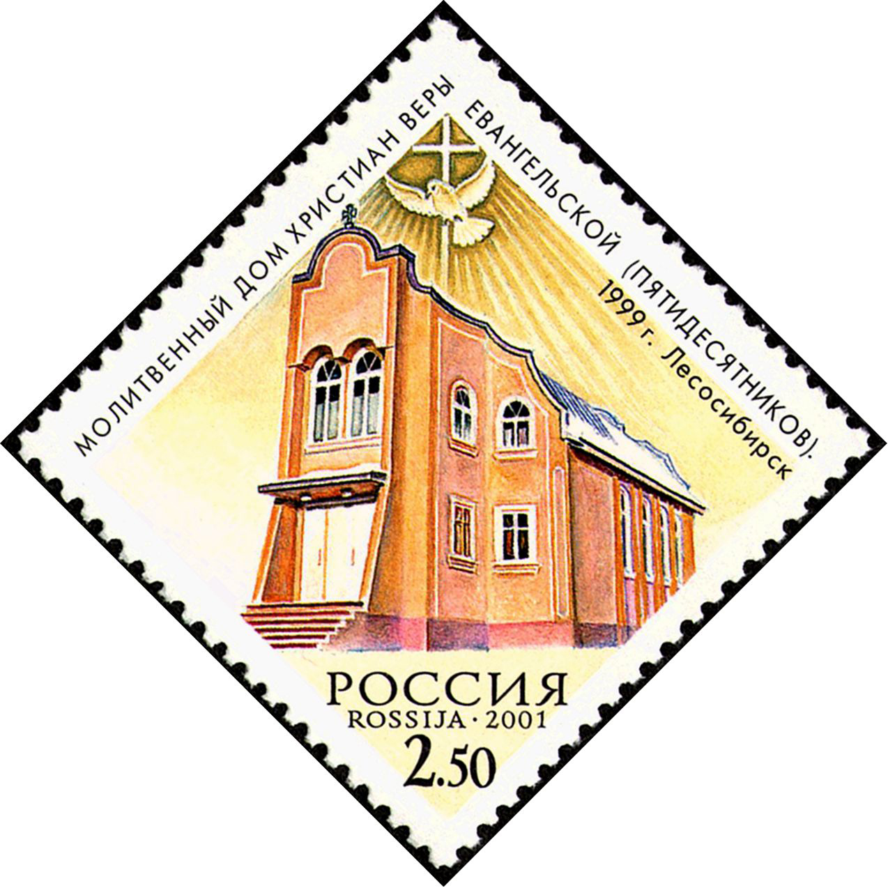 Religious buildings of Russia. Christianity, Pentecostalism. The Pentecostal House of Prayer in Lesosibirsk, Kranoyarsk Krai. 1999. The stamp of Russia, 2.50 rubles, 12 July 2001, PTC Marka Catalogue No 690, Michel No 922, Scott No 6645. Coated paper. Offset printing. Multicoloured. Perforation: comb 11½. Size of the stamp: 37×37 mm. Print run: 350,000.